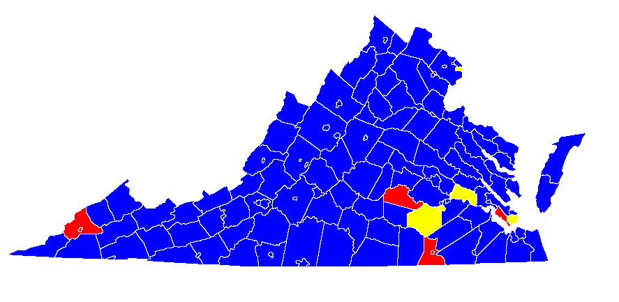 A map showing the results of the Virginia Democratic gubernatorial primaries in 2009. Blue denotes a Deeds victory, red denotes a McAuliffe victory, and yellow denotes a Moran victory.